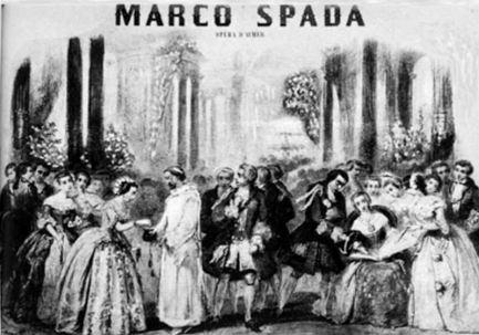 Description in source says: Marco Spada: the ball scene in act 2 (lithgraph from the score)